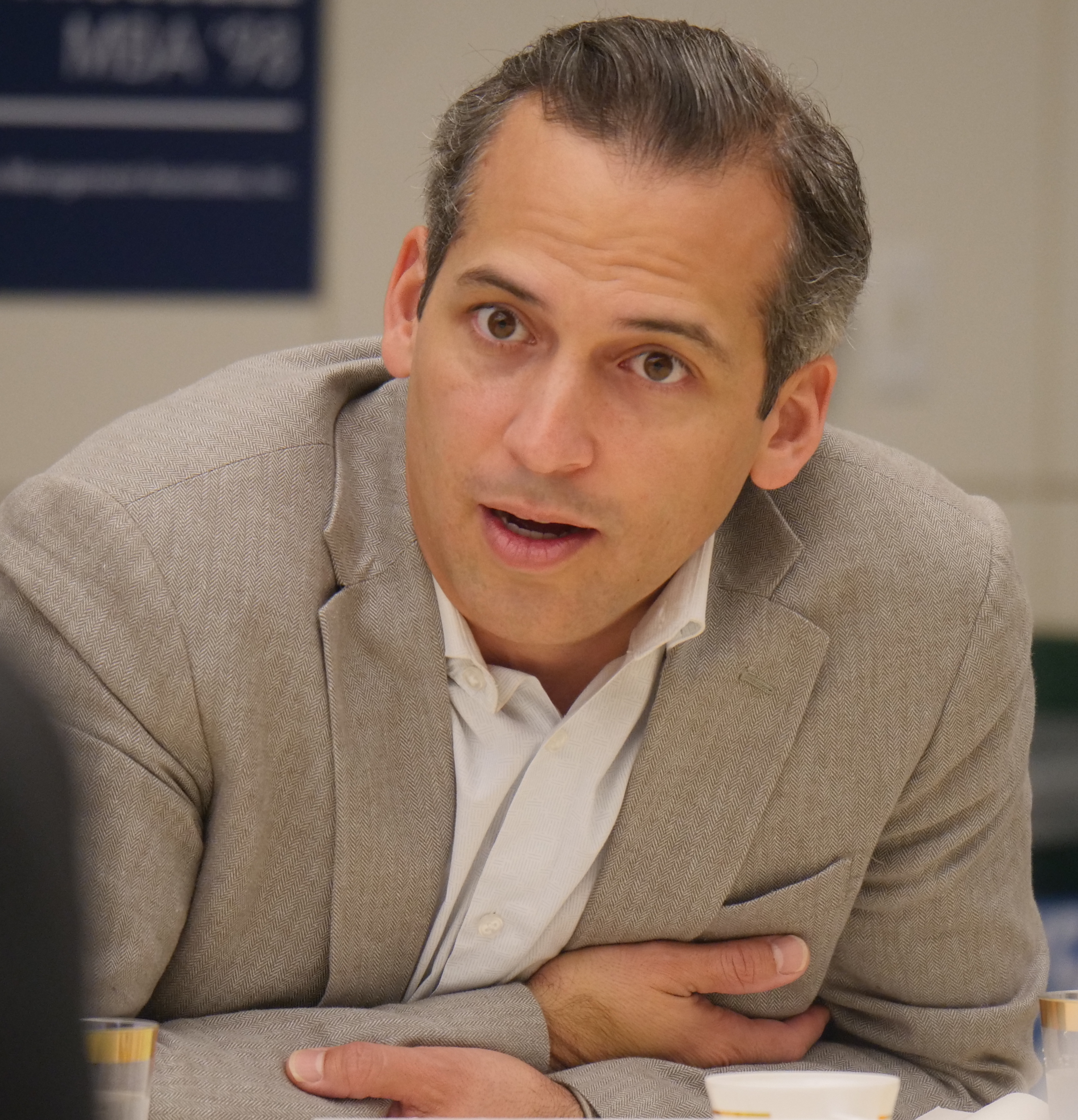 Nick Schifrin, of the PBS NewsHour, at George Washington University (GWU) on June 25, 2019. The occasion was a meeting between U.S. Department of Defense Chief Information Officer Dana Deasy and journalists from the Defense Writers Group, an association of news outlets with reporters that cover national security issues at GWU. The Defense Writers Group is housed at the George Washington University's School of Media and Public Affairs under the Project for Media and National Security.